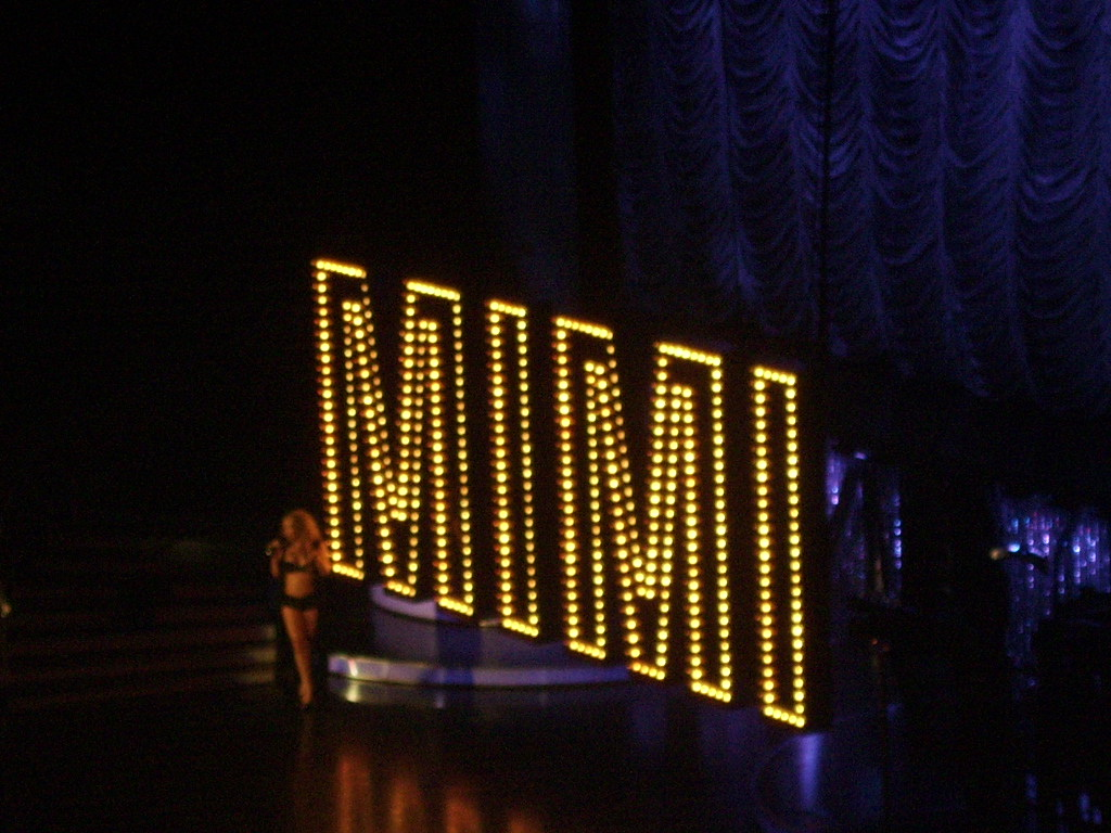 Mariah Carey performing in Tampa, Florida during The Adventures of Mimi Tour.